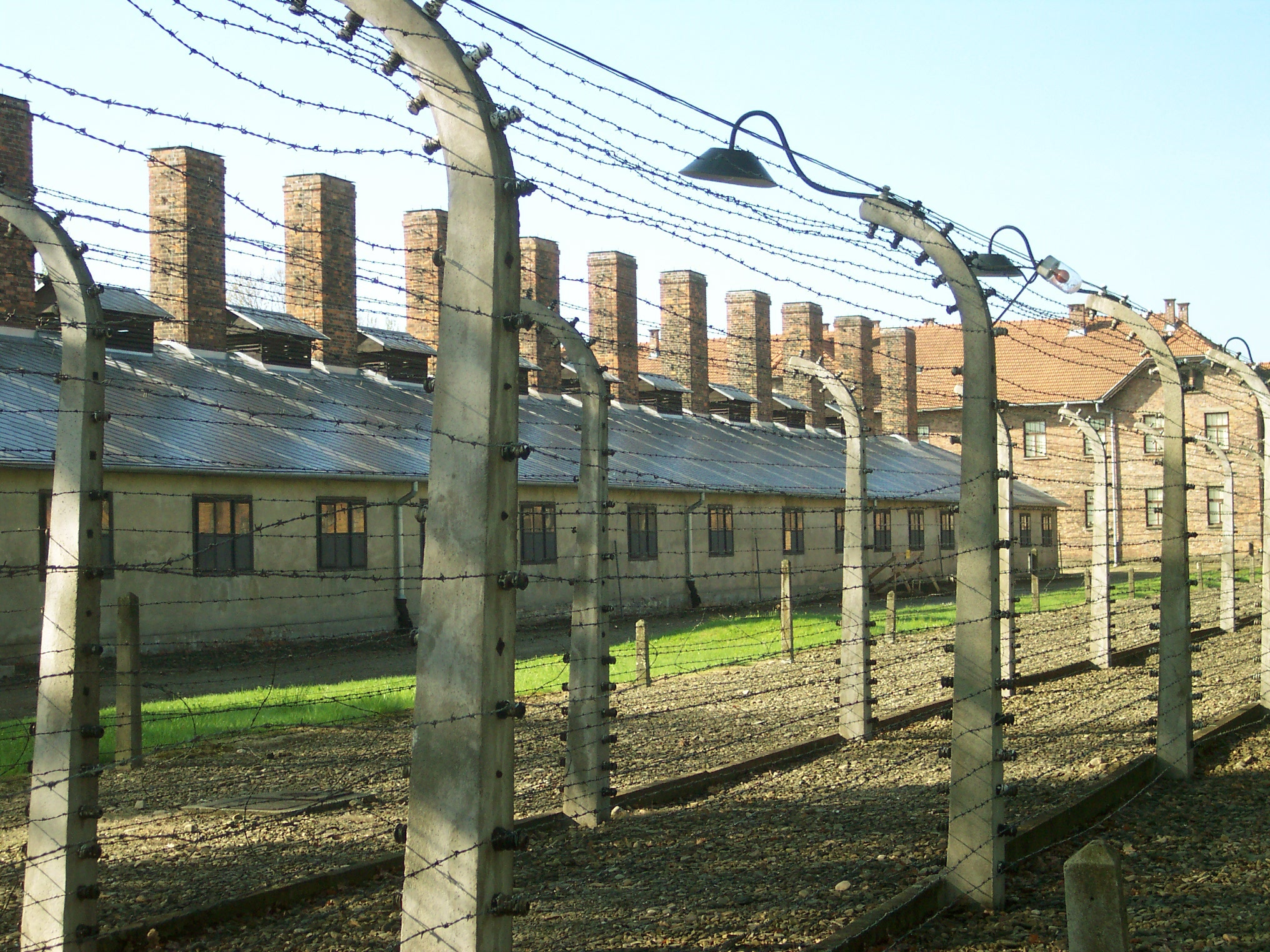 Barbed wire perimeter fencing near by the entrance to the German death camp Auschwitz I in Poland. Note the electrical insulators on the concrete fence-posts. The barbed wire was electrified with lethal voltages, to kill any escapers. Additionally, the top of the fencing is deliberately designed to slope inwards thereby making it more difficult to climb over, even without electrical current running through it. The view is taken from the outside, looking into the camp. In addition to the 2 electrified fences there is a third "dead-line" fence just beyond, visible in the middle distance. Any prisoner stepping over the low third fence would immediately be shot dead without warning by perimeter guards.